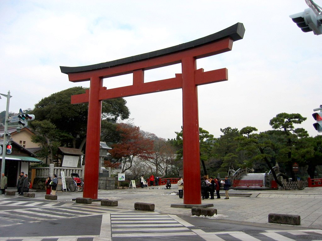 The Torii in the front of Tsurugaoka Hachiman Shrine in Kamakura(Kanagawa, Japan)